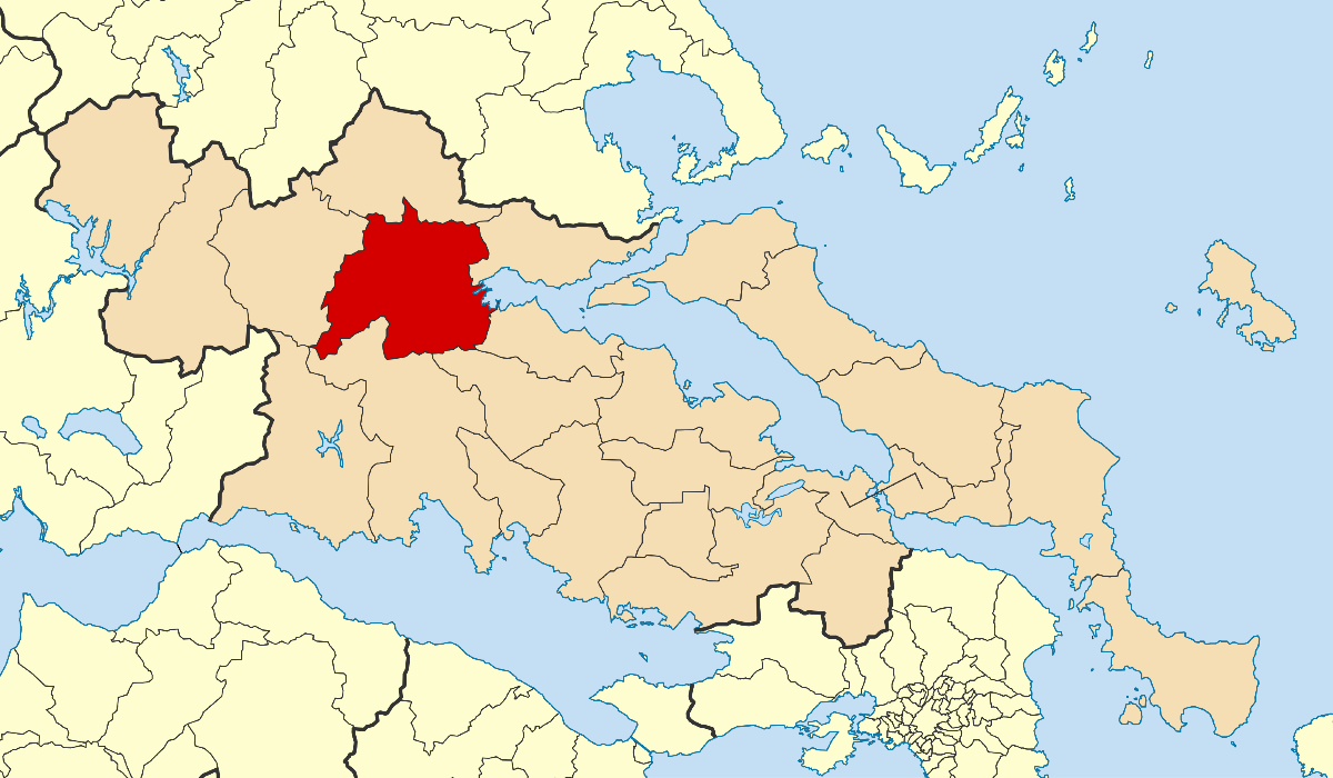 Locator map for Lamia municipality in Greek region Central Greece (2011)